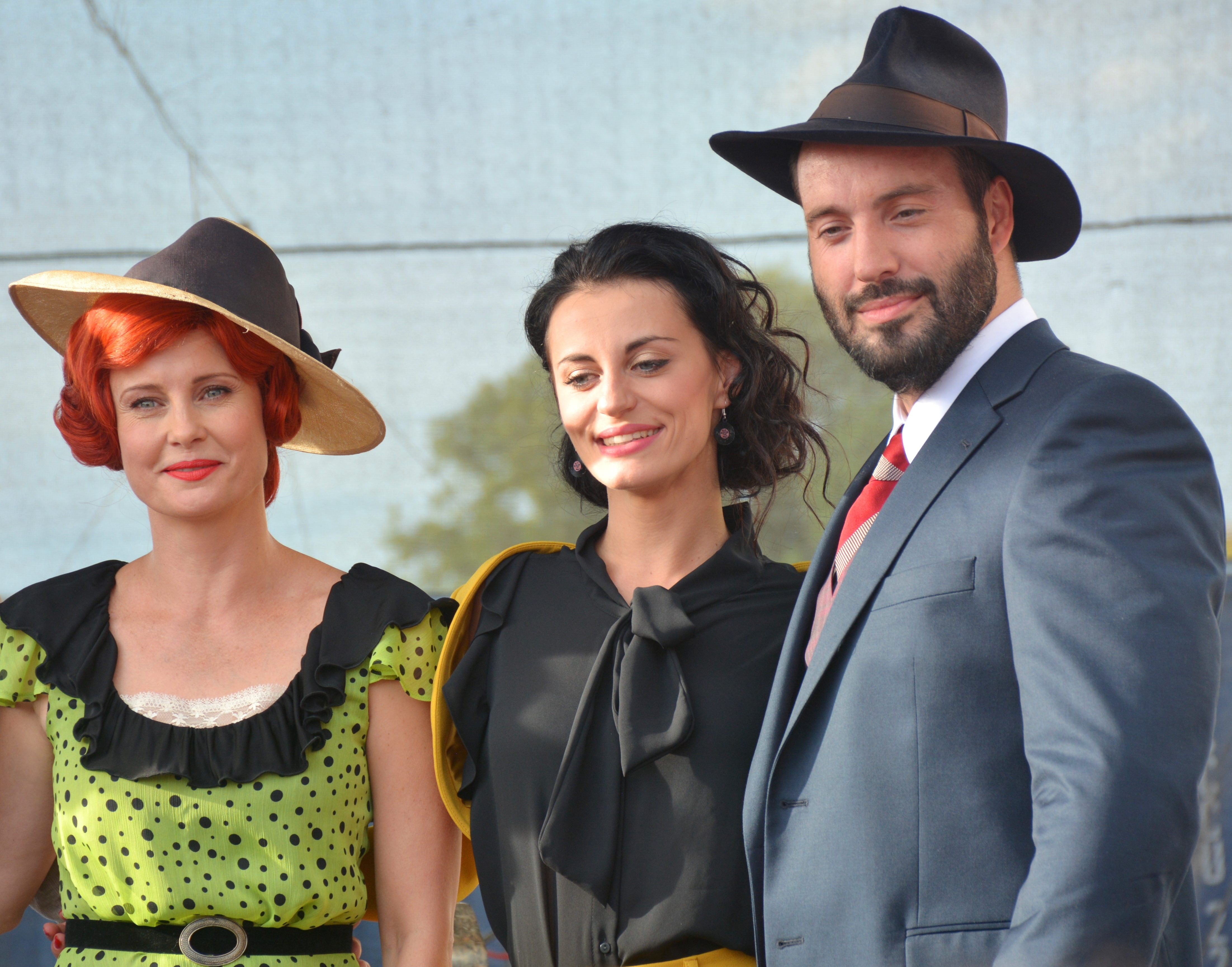 From left: Jitka Schneiderová, Markéta Procházková, Václav Noid Bárta, Czech actors and vocalists